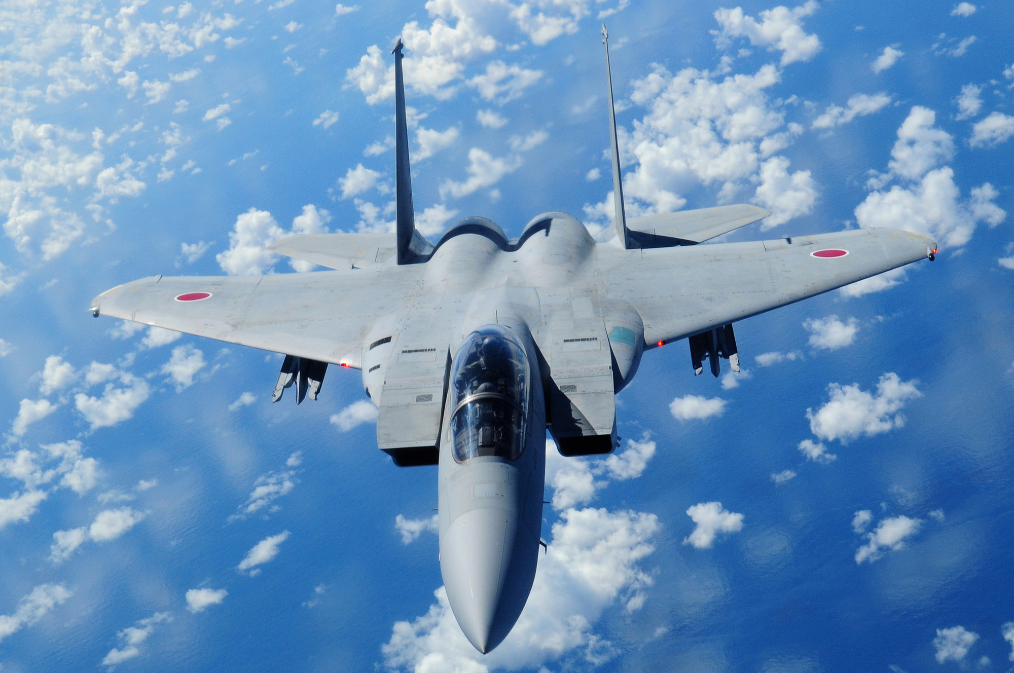 A Japan Air Self Defense Force F-15 (F-15DJ) in flight, as viewed from the boom operator position of a U.S. Air Force KC-135 from the 909th Air Refueling Squadron, Kadena Air Base, after being refueled during air refueling training July 30.